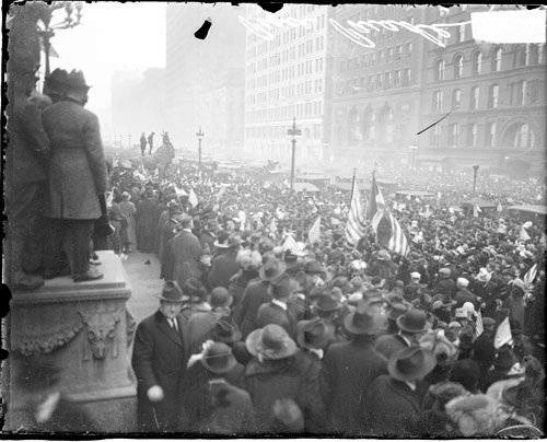 Elevated view of spectators standing on the steps and the sidewalk in front of the Chicago Art Institute, watching vehicles parading down South Michigan Avenue watching the Armistice Day peace celebration parade. The Art Institute is located at 111 South Michigan Avenue in the Loop community area of . The Railway Exchange, 80 East Jackson Street, Orchestra Hall, 220 South Michigan Avenue and the Pullman Building, 79 East Adams Street are visible across the street.